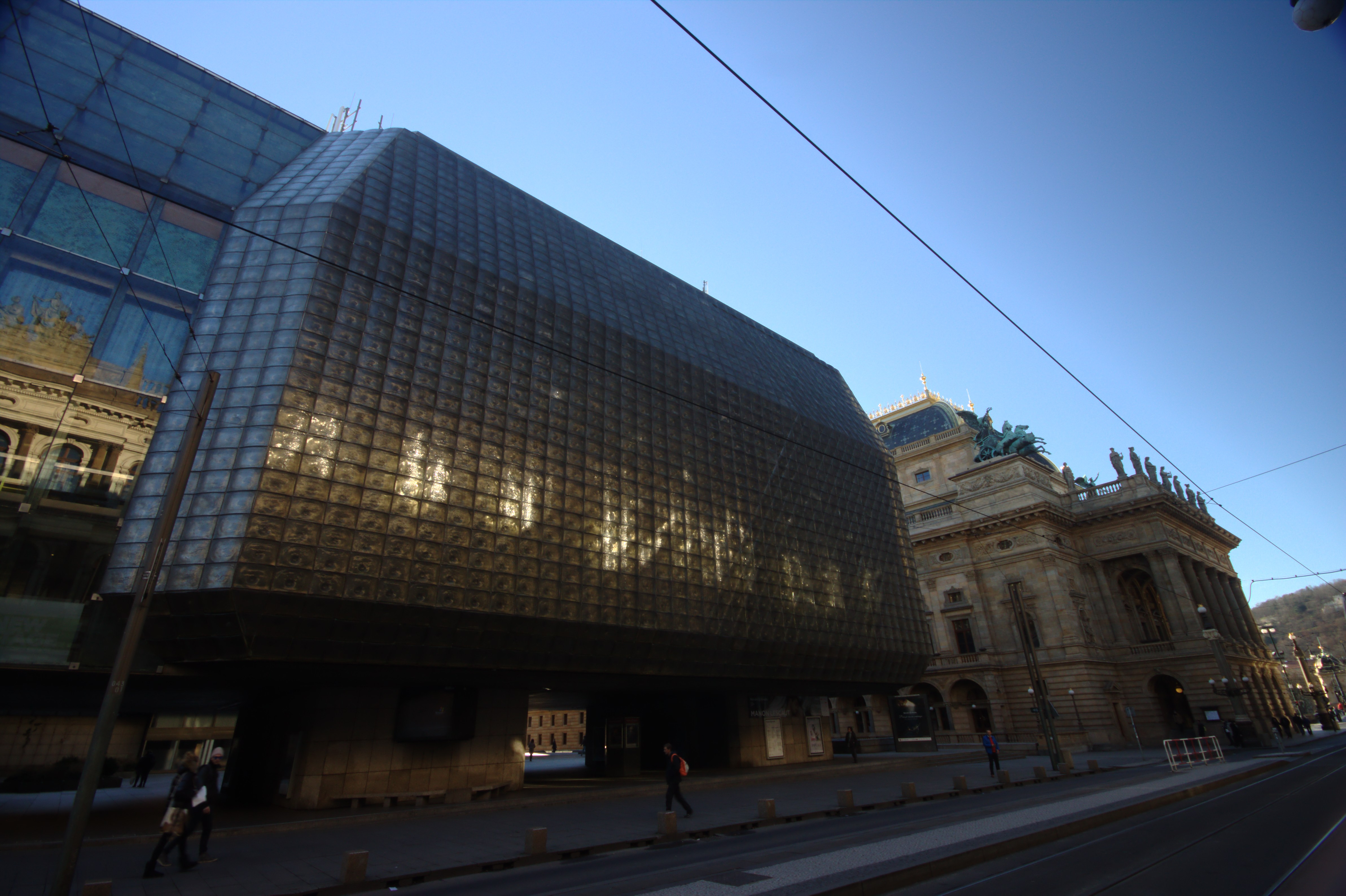 Nová scéna theatre in Prague, Národní třída Street